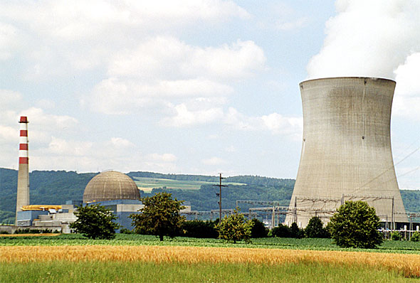 Leibstadt Nuclear Power Plant